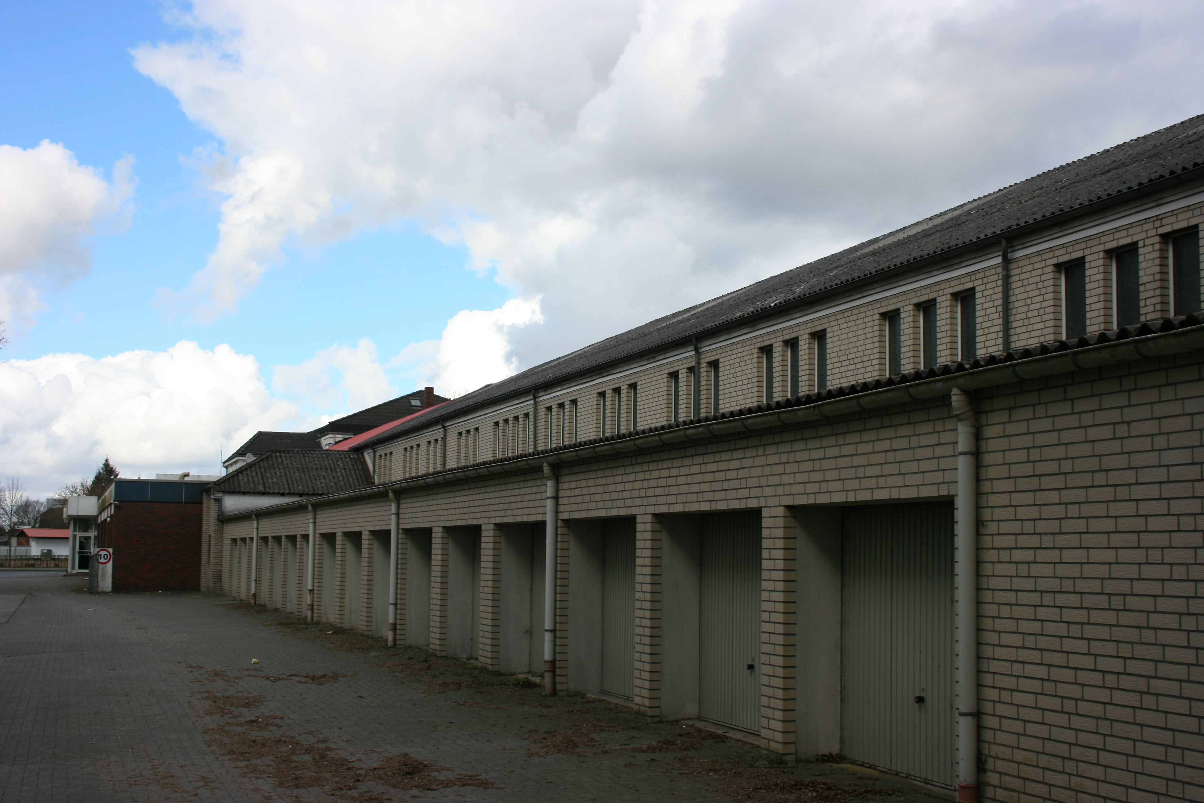 Jewish Cemetaries in East Frisia Aurich Bullenhalle